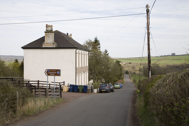 Tillietudlem The single-track road leading to Craignethan Castle is signposted.